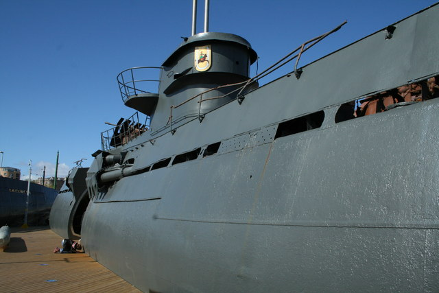 U 534 Surfaced u-Boat